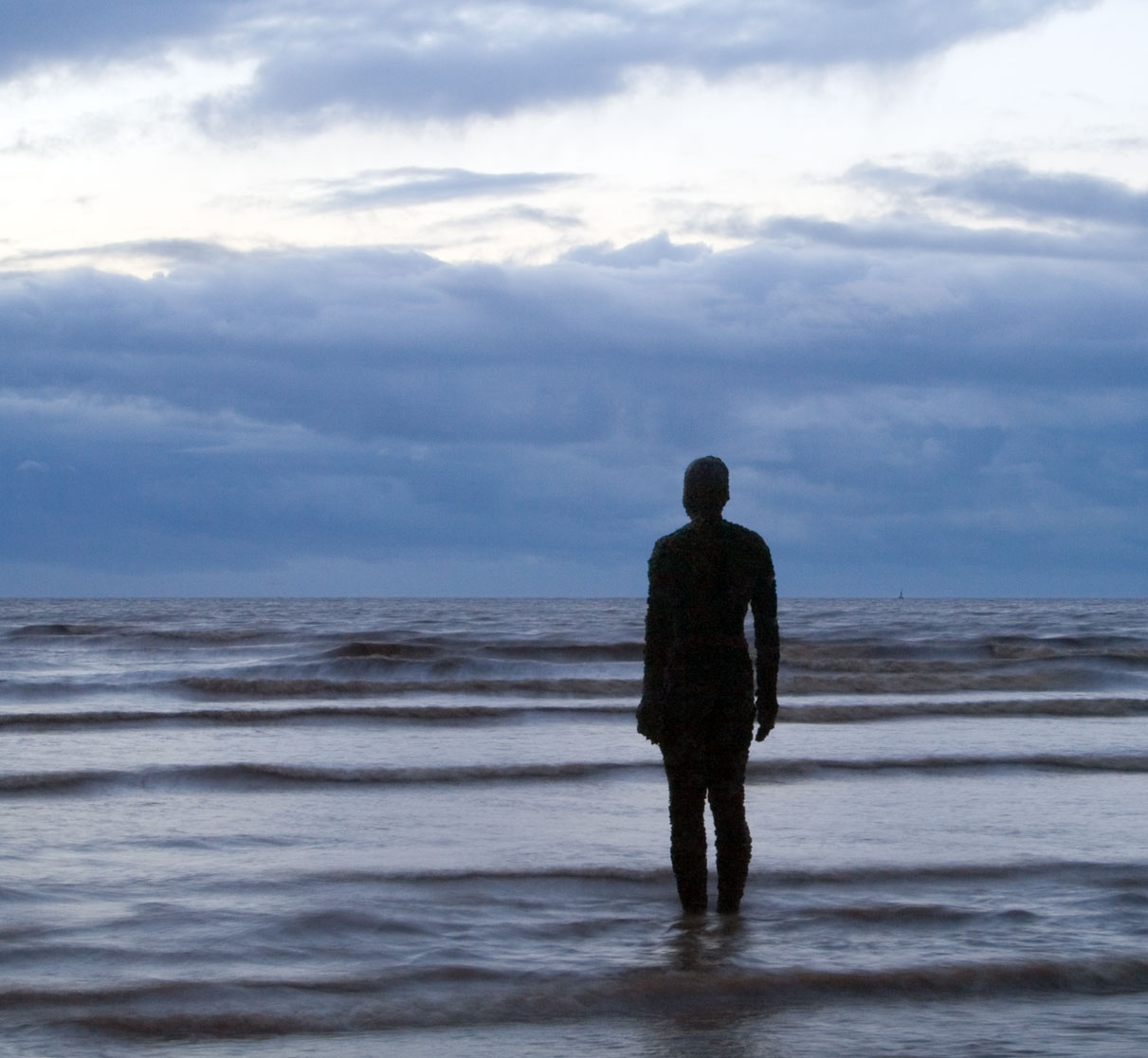 One of the many life-sized cast iron figures of Antony Gormley's installation Another Place on Crosby Beach, near Liverpool in England. The figures all stare out over the Irish Sea in shared solidarity at the relatively bleak seascape. Most of the figures are submerged at high tide and so are now covered with barnacles. This is a temporary installation that has previously been shown in Cuxhaven, Germany.